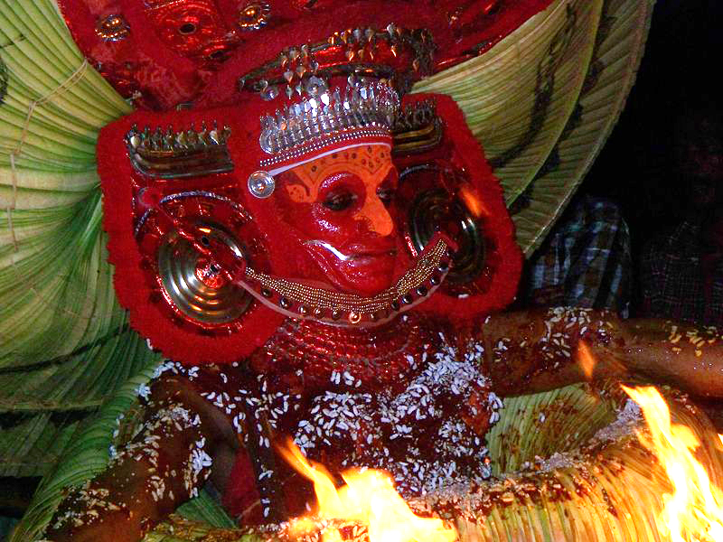 Original :ചിത്രം:Puthiya bhagavathi2.JPG